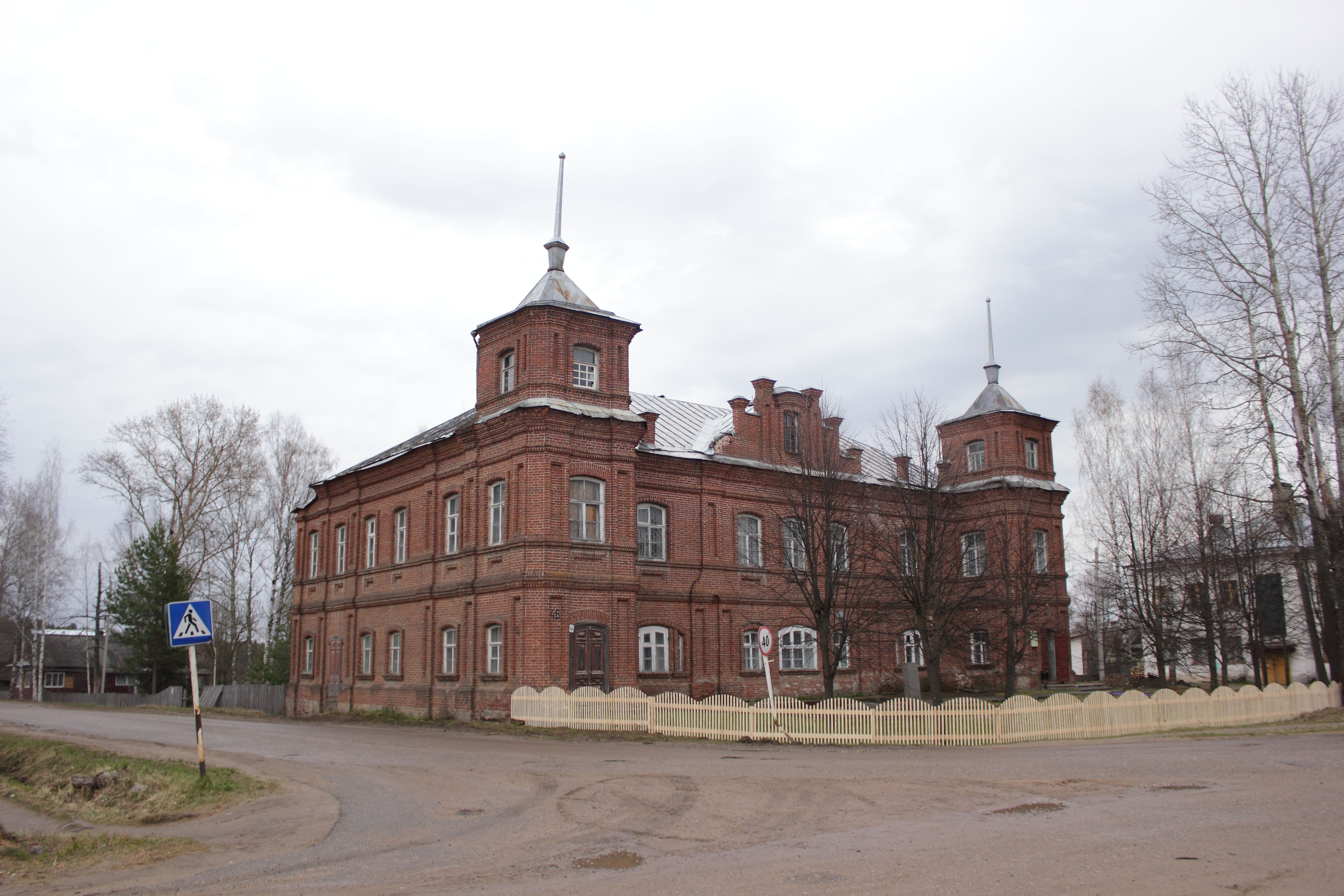 Kologriv Museum of Local Lore behalf G.A. Ladyzhensky